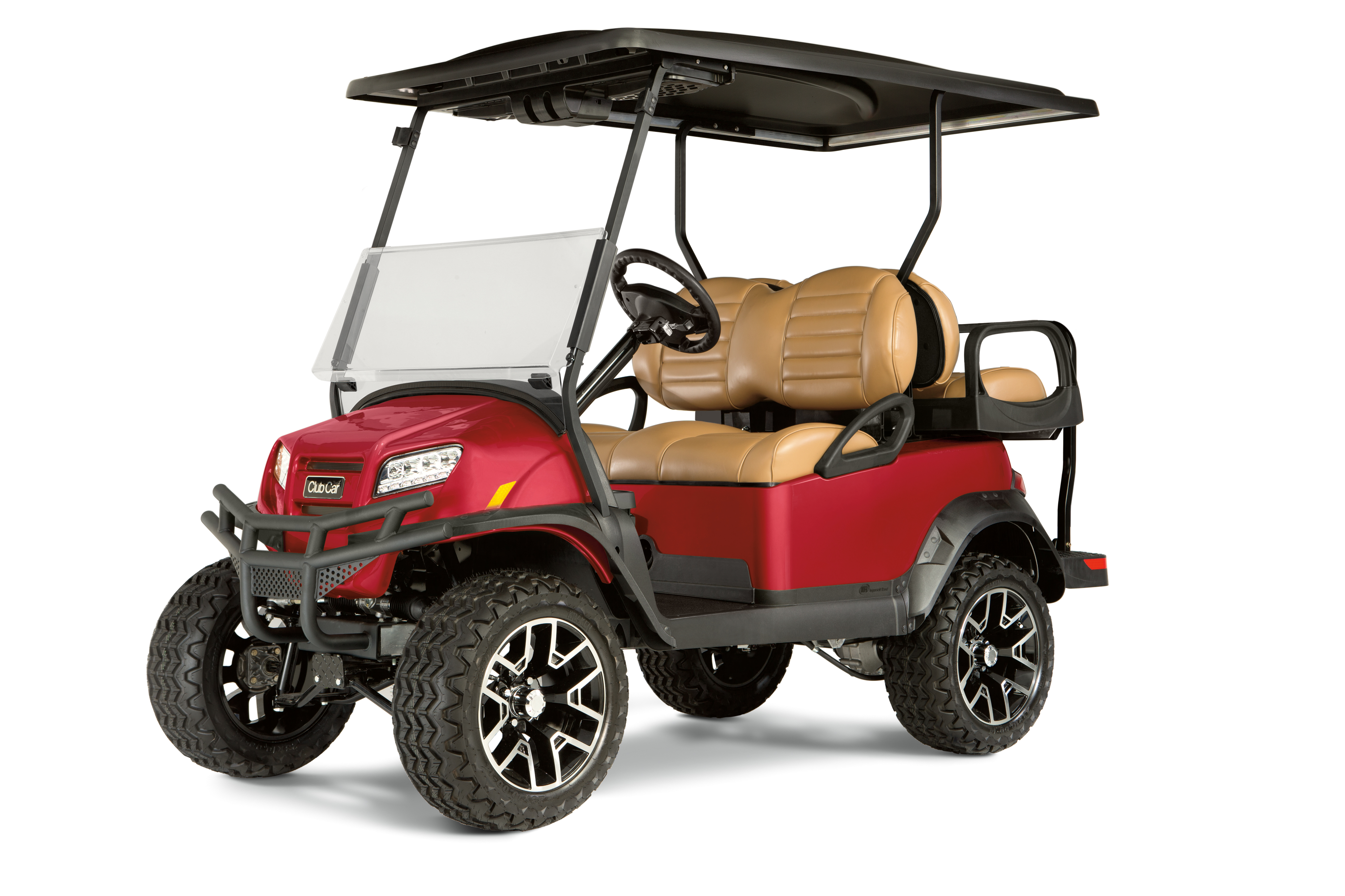 Club Car's Onward™ Lifted 4 Passenger PTV, released in 2017.